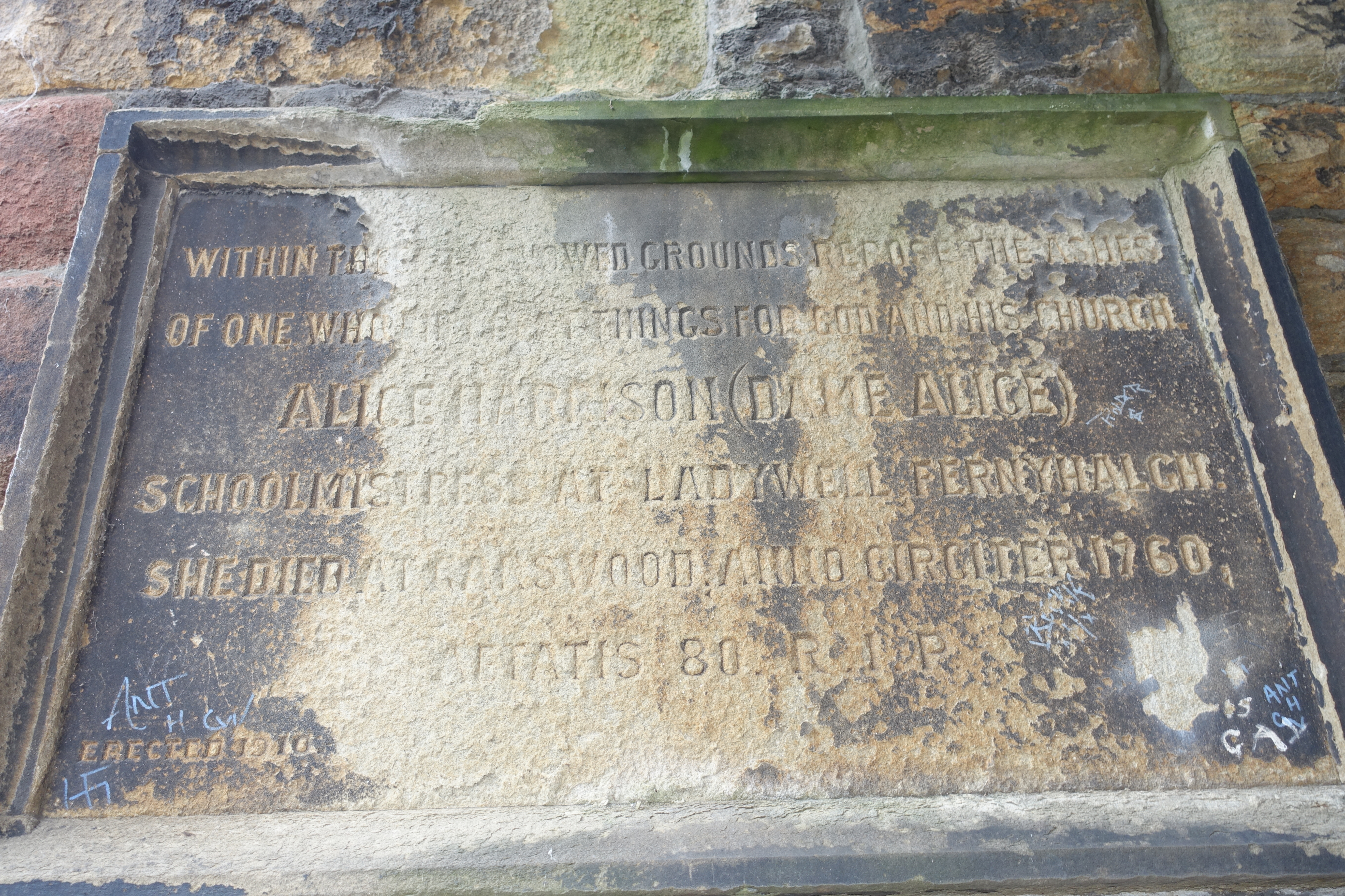 Alice Harrison (Dame) The inscription reads: “WITHIN THESE HALLOWED GROUNDS REPOSE THE ASHES OF ONE WHO DID GREAT THINGS FOR GOD AND HIS CHURCH. ALICE HARRISON (DAME ALICE) SCHOOL MISTRESS AT LADYWELL, FERNYHALGH SHE DIED AT GARSWOOD, ANNO CIRCITER 1760, AETATIS 80, R.I.P. This stone is inside the Ruins of Windleshaw Abbey, ref 6621. ref: 6635 - 20th Nov 2018